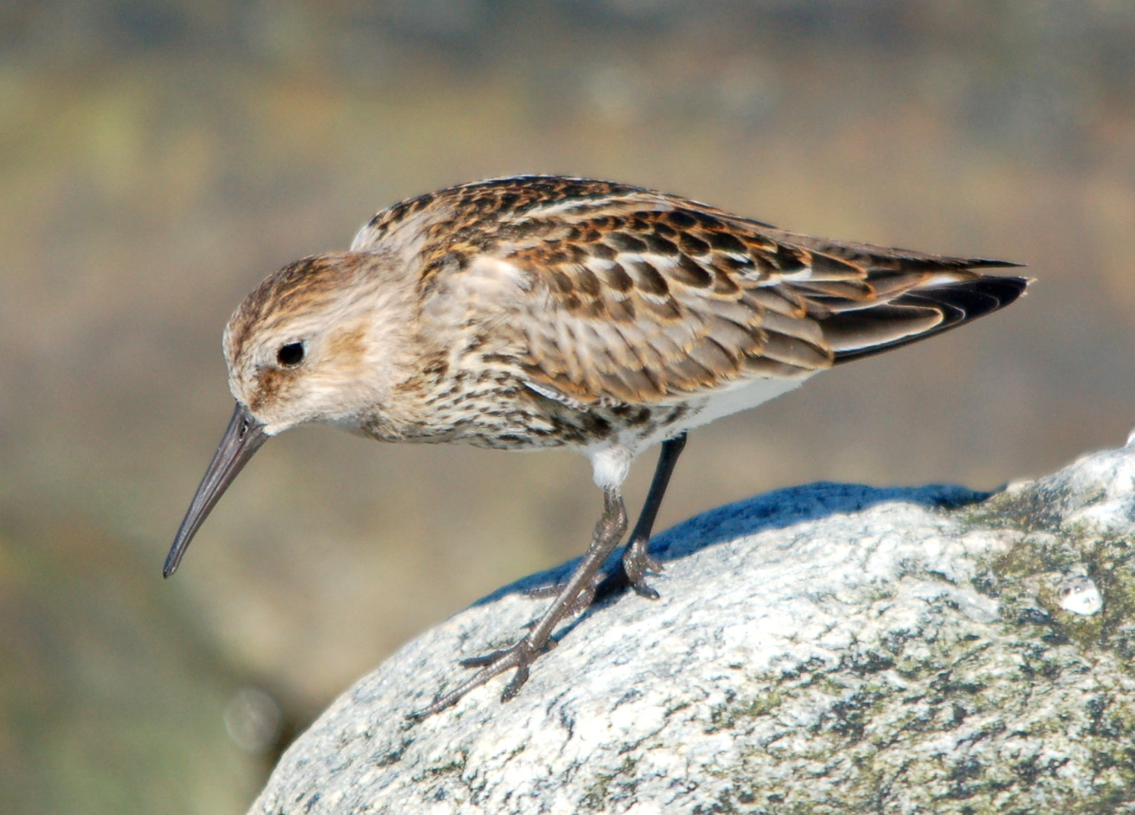 Dunlin, Calidris alpina, Mølen, Larvik, Norway